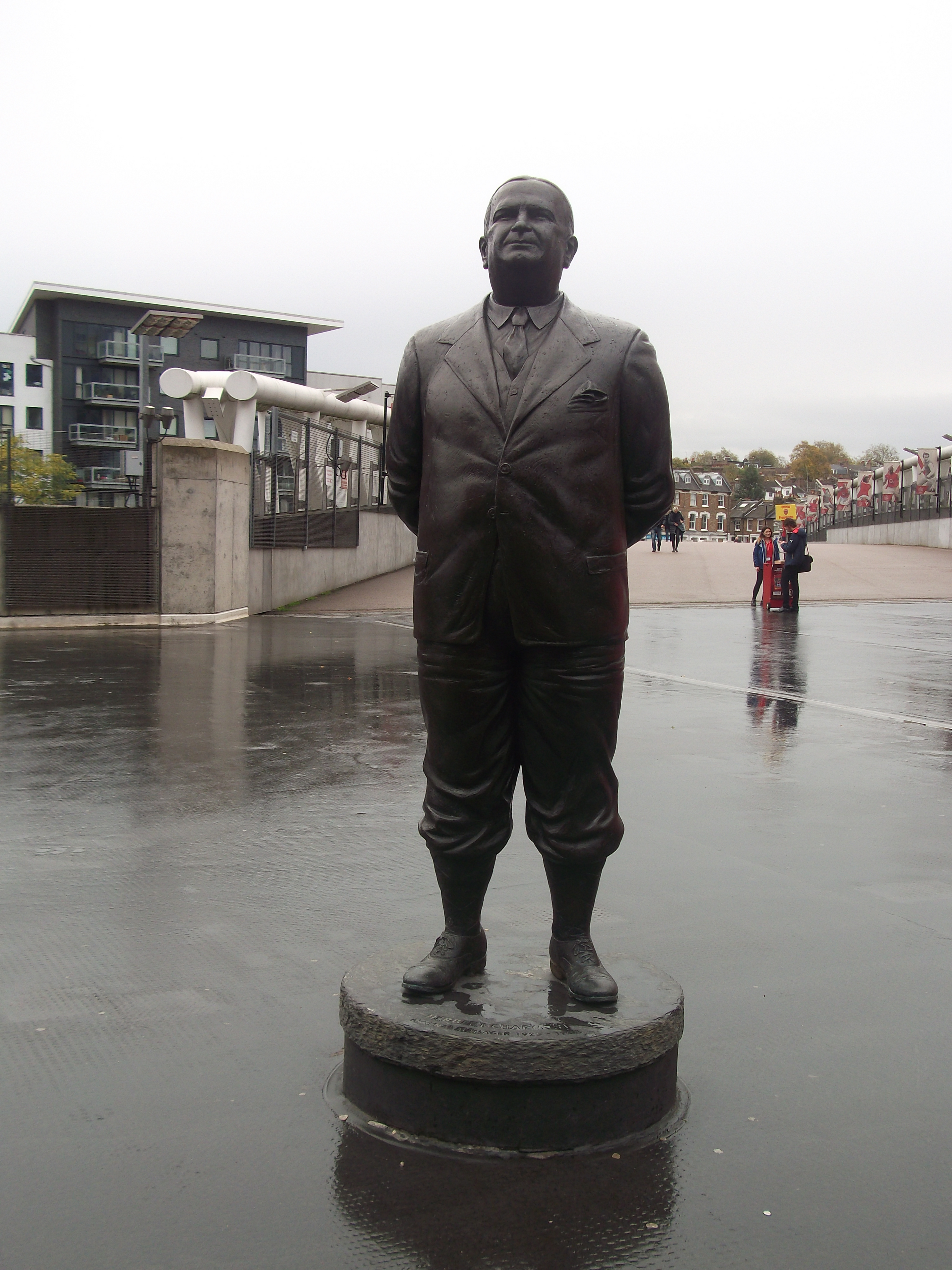 Arsenal FC v Everton FC, 24 Oct 2015